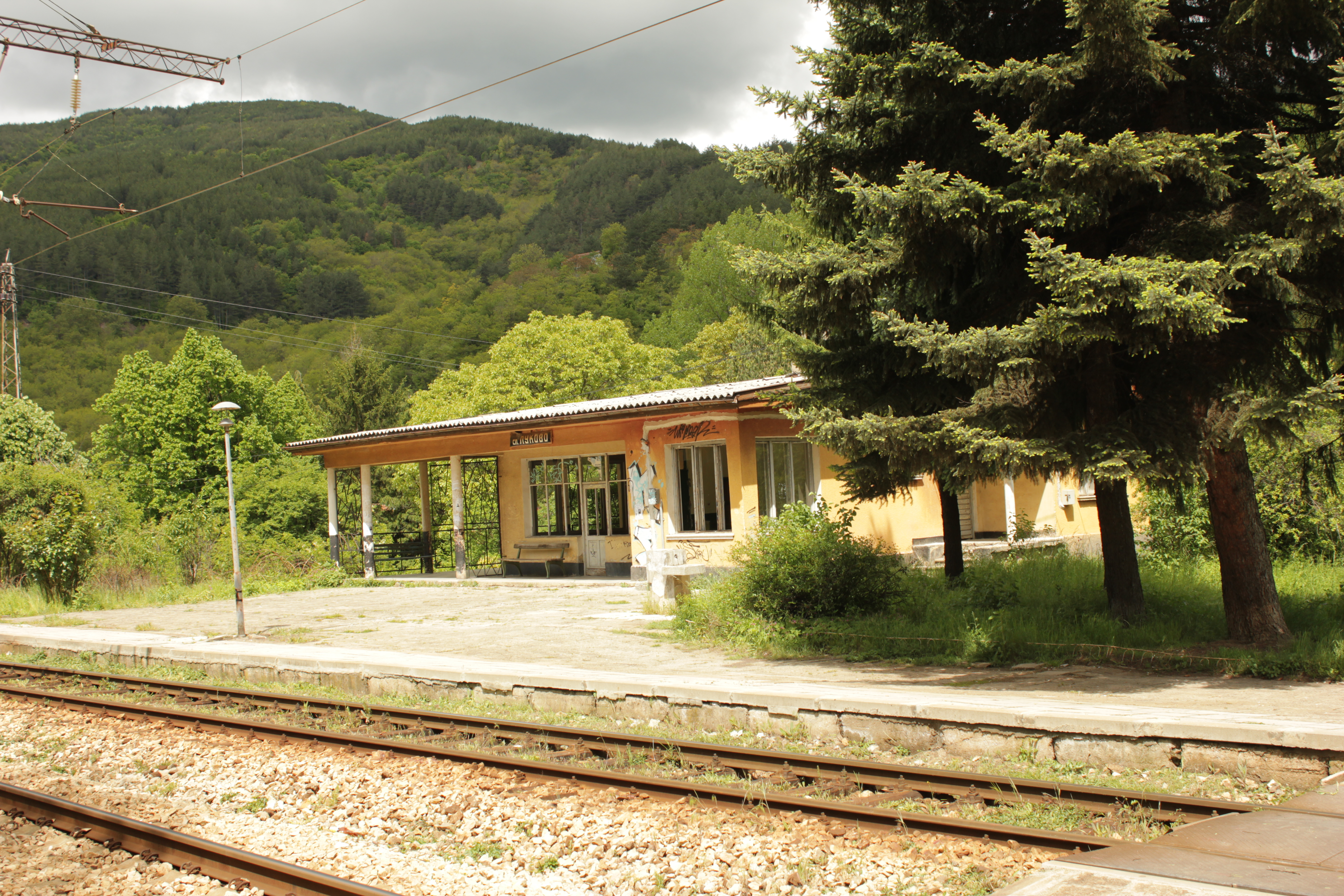 Train Stop Lukovo, Bulgaria